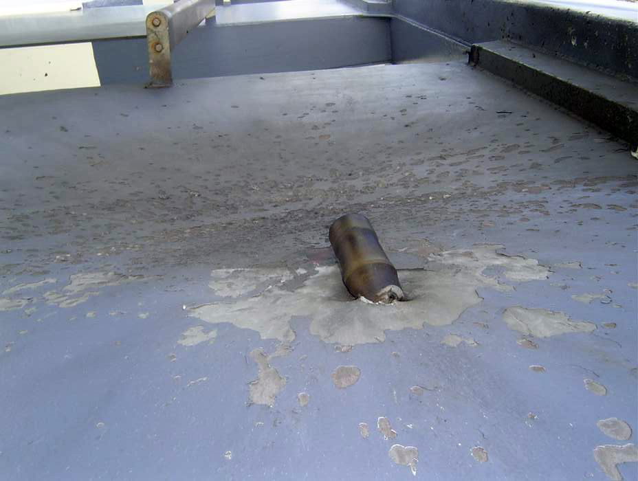 051107-N-2806F-001 Coast of Somalia (Nov. 7, 2005) – The remnants of a rocket propelled grenade (RPG) shown after striking the cruise liner Seabourn Spirit during a Nov. 5 attack by pirates near the coast of Somalia. Personnel assigned to the U.S. Navy Explosive Ordnance Disposal Mobile Unit Eight (EODMU-8), Detachment 4, boarded Seabourn Spirit while at sea to remove the RPG. The technicians determined that the object in question was actually the remains of a rocket motor and not the warhead from the RPG, which had detonated on impact.